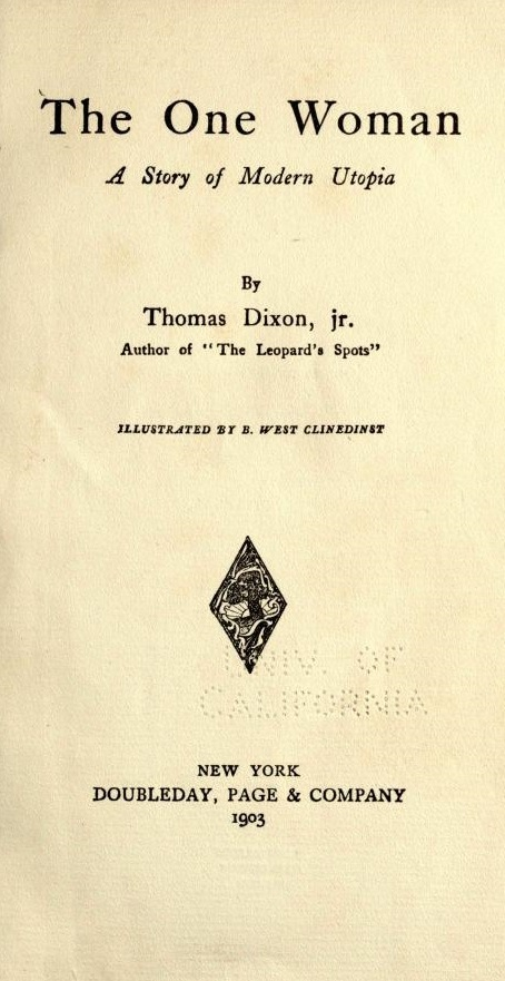 The One Woman: A Story of Modern Utopia.